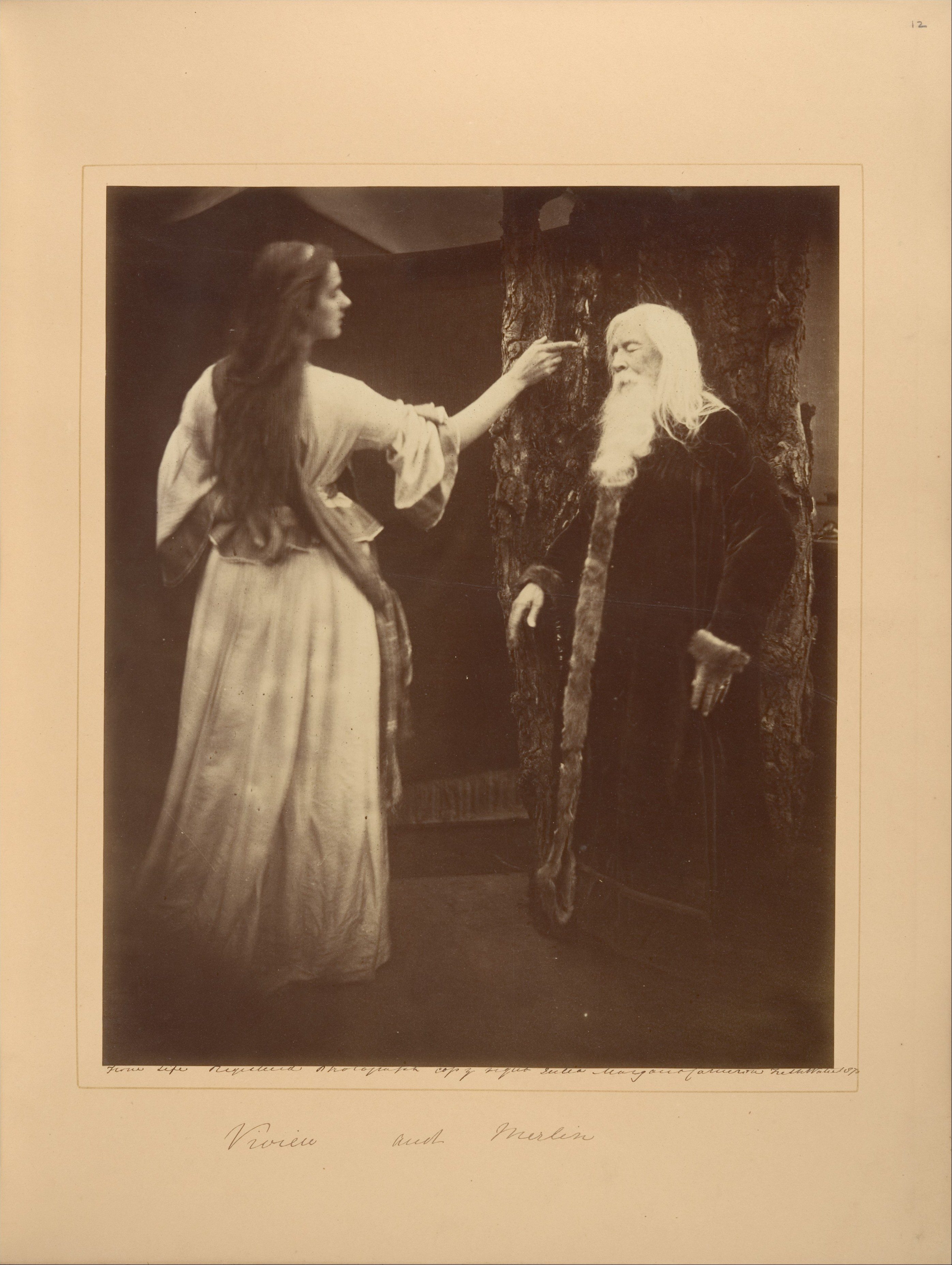 Vivien and Merlin. Albumen silver print from glass negative, 11 15/16 x 9 15/16 in. (30.4 x 25.3 cm) (image without mount).